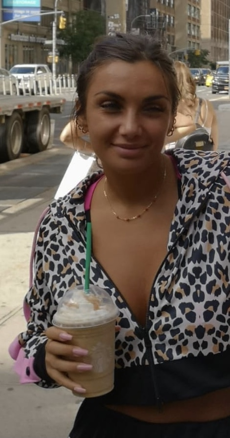 Elettra Lamborghini in New York, before the VMA.